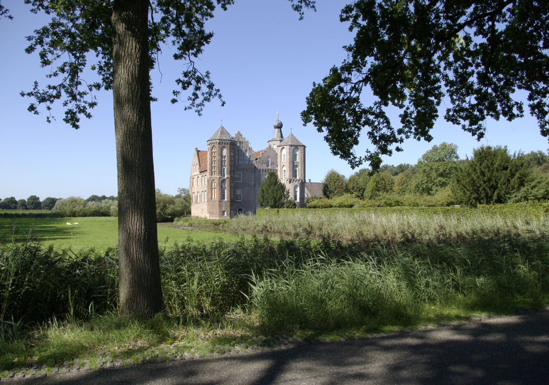 Croy Castle from Croylaan (view: North West) in Aarle Rixtel, Laarbeek, Netherlands